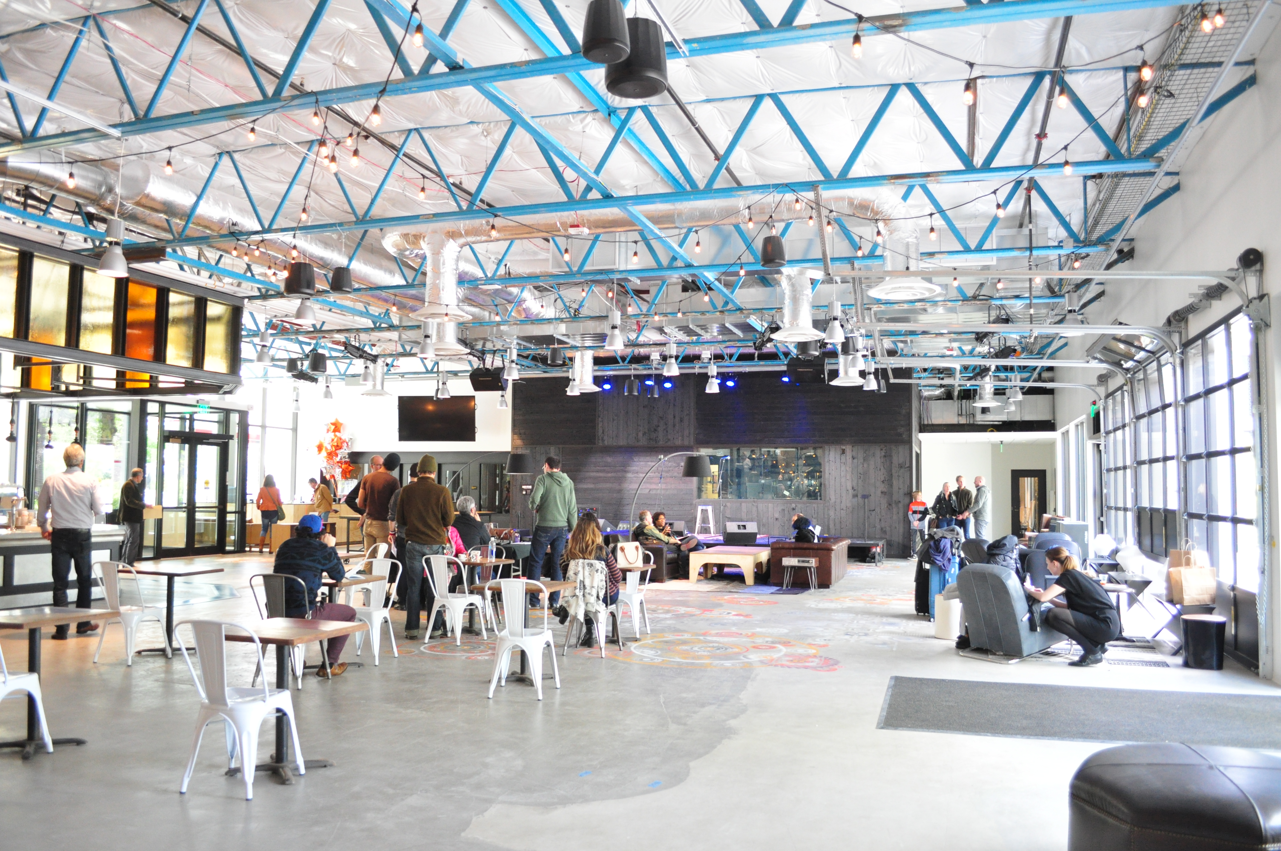 The Gathering Space, KEXP studio, Seattle Center, Seattle, Washington. This photo was taken in the inaugural week of the new studios.